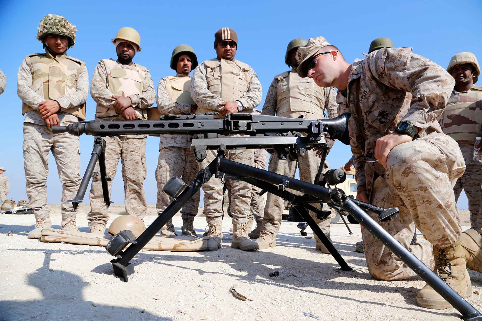 U.S. 5TH FLEET AREA OF RESPONSIBILITY (Dec. 10, 2014) U.S. Marine Corps 1st Lt. Austin J. Hartman, a platoon commander with Weapons Company, Battalion Landing Team 2nd Battalion, 1st Marines, 11th Marine Expeditionary Unit (MEU), and native of Hays, Kansas, practices operating a MG3 general-purpose machine gun from the Royal Saudi Naval Forces as part of joint weapons familiarization training during exercise Red Reef 15 in the U.S. 5th Fleet area of responsibility, Dec. 10, 2014. Red Reef, is part of a routine theater security cooperation engagement plan between the U.S. Navy, U.S. Marine Corps and Royal Saudi Naval Forces that serves as an excellent opportunity to strengthen tactical proficiency in critical mission areas and support long-term regional security.(U.S. Marine Corps photos by Gunnery Sgt. Rome M. Lazarus/Released)